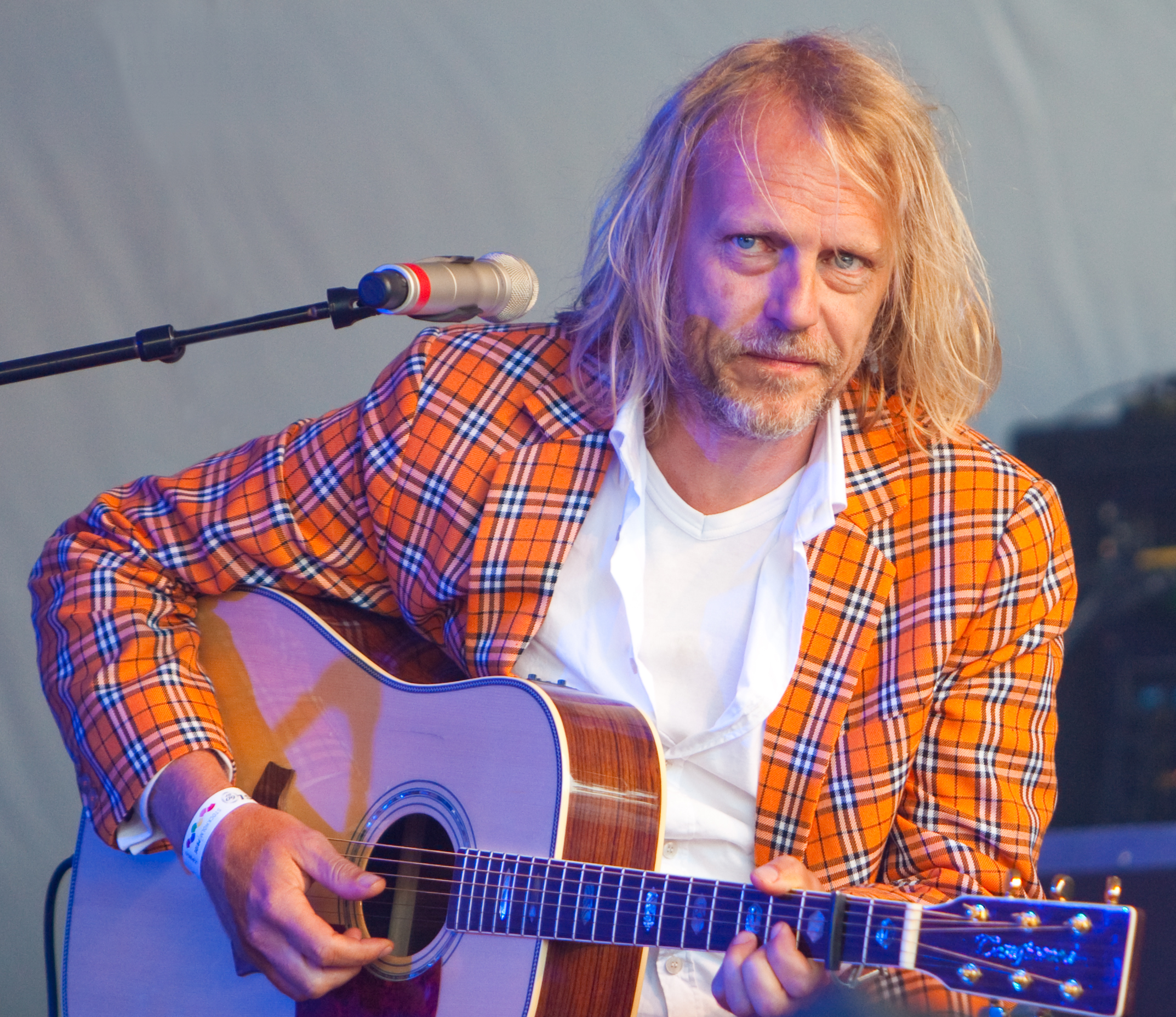 Heinz Liljedahl, the other half of Caroline